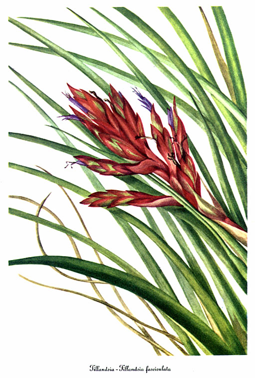 Watercolor painting of Tillandsia_fasciculata.